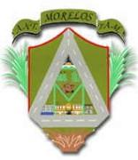 Antiguo Morelos Escudo de Armas